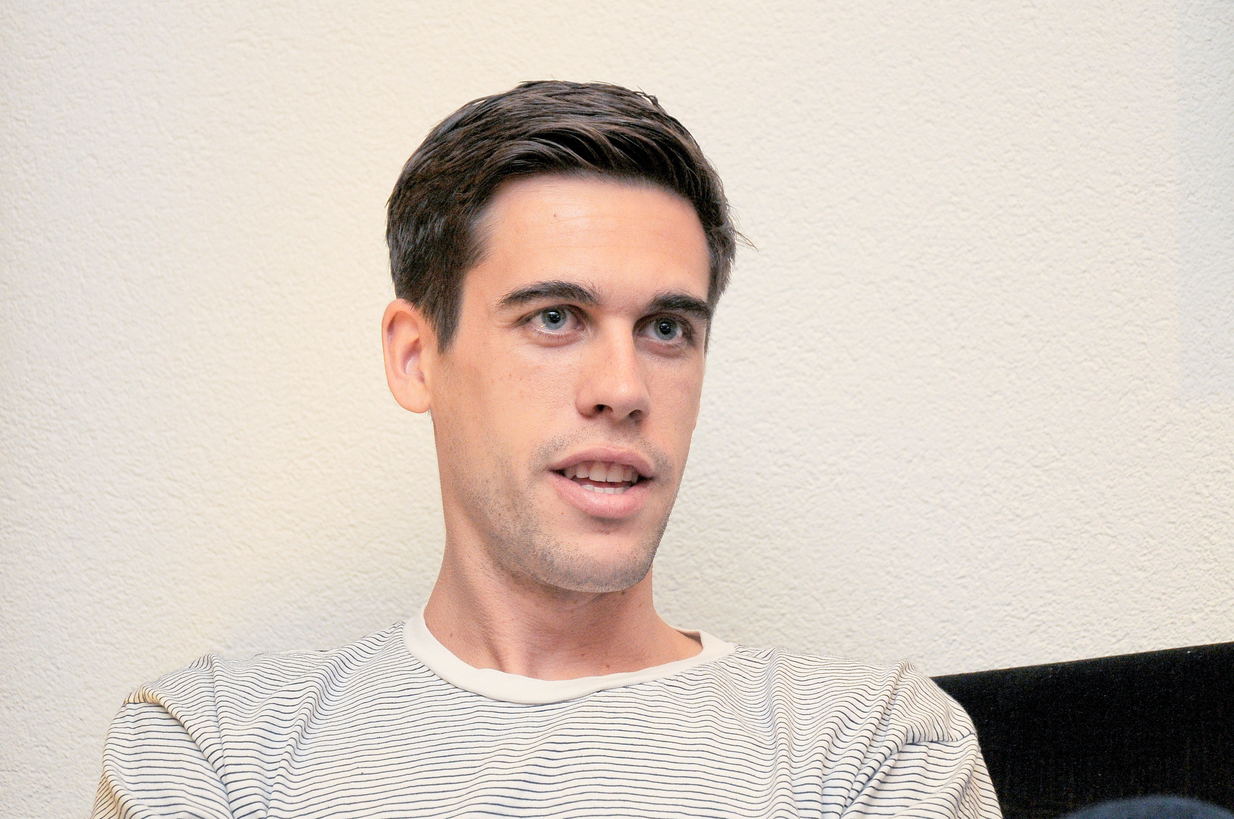 Photo of author Ryan Holiday